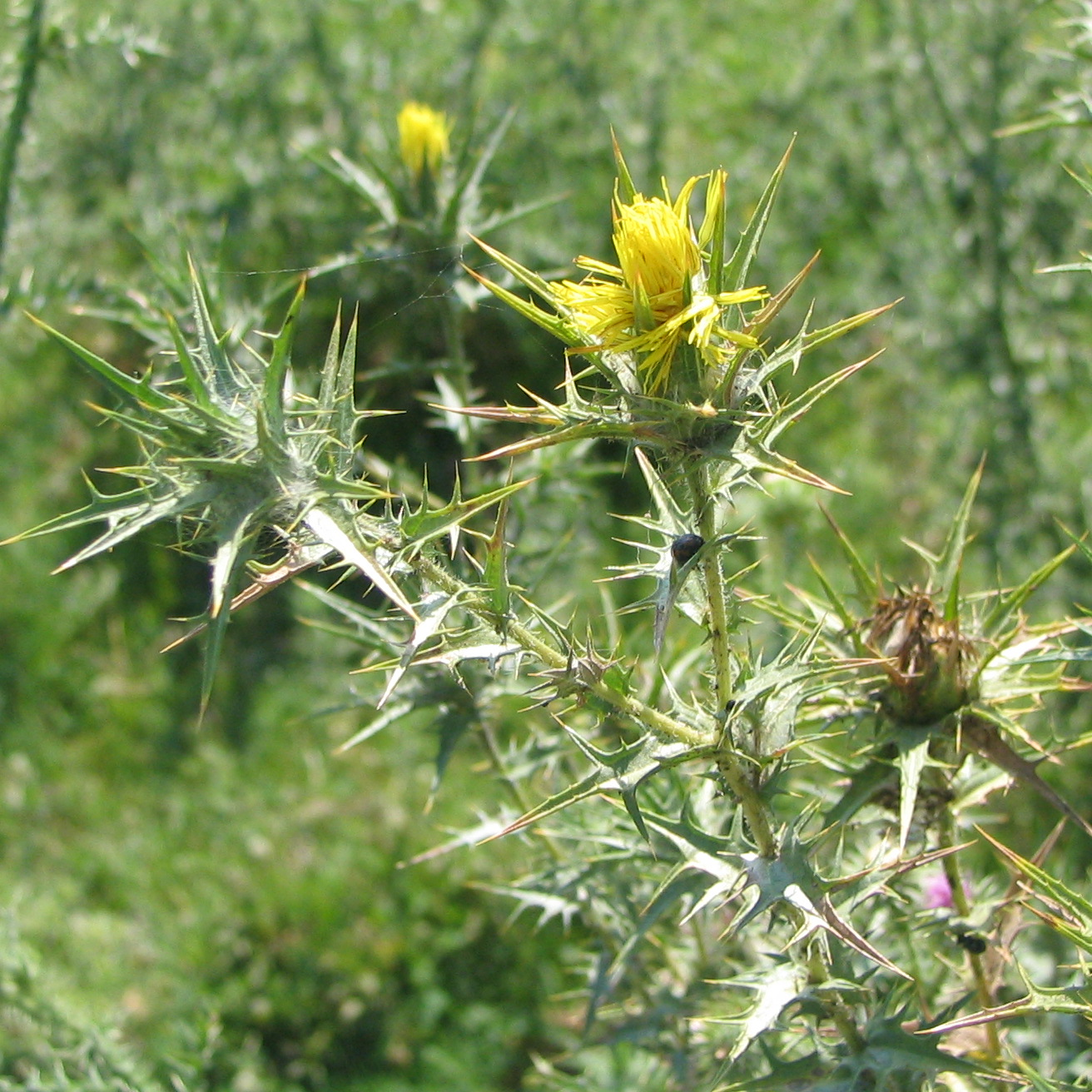 Carthamus lanatus, Asteraceae